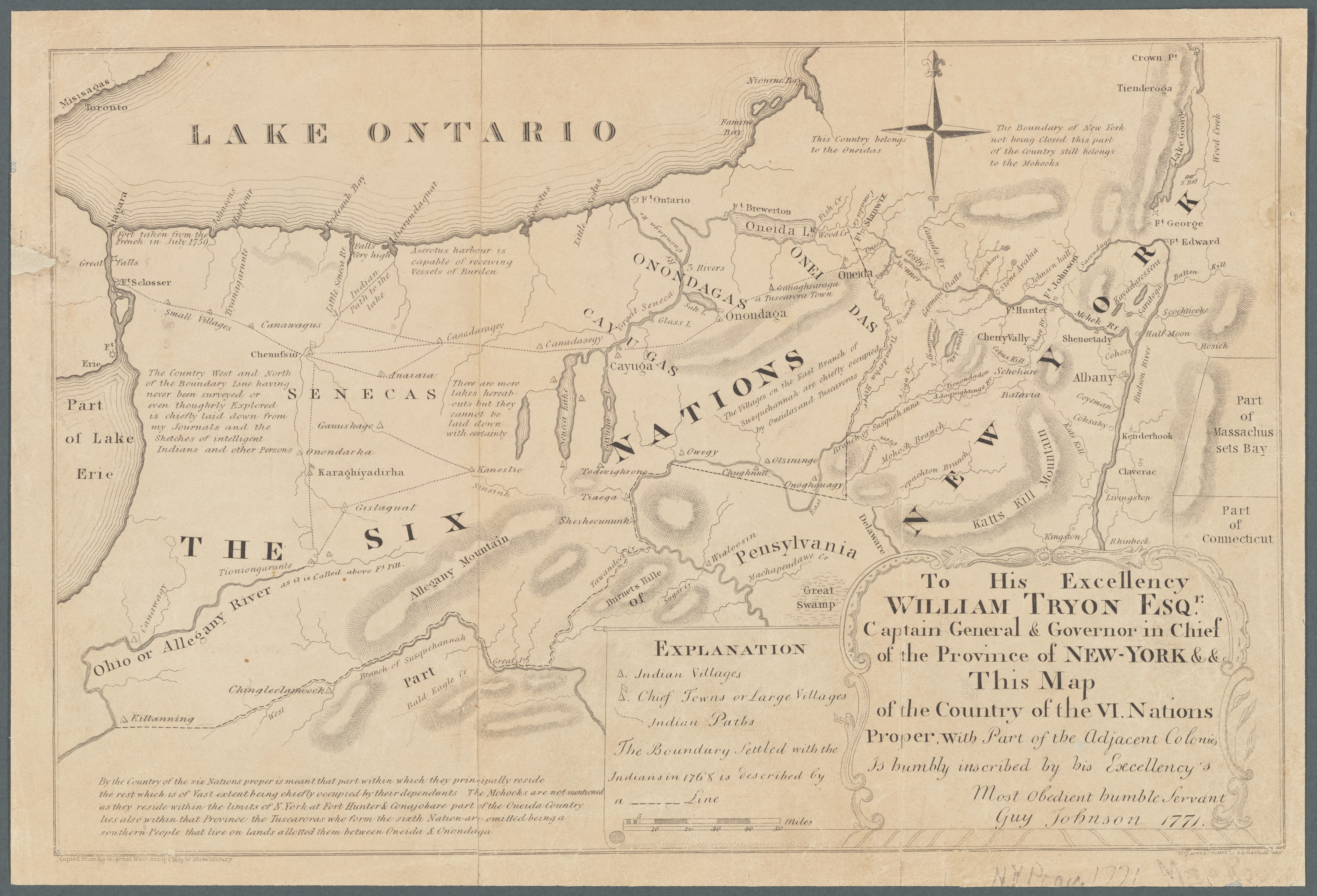 Guy_Johnson,_Map_of_the_Country_of_the_VI_Nations,_1771, from E. B. O'Callaghan, Documentary History of the State of New0York (1851) vol. 4 p. 1090